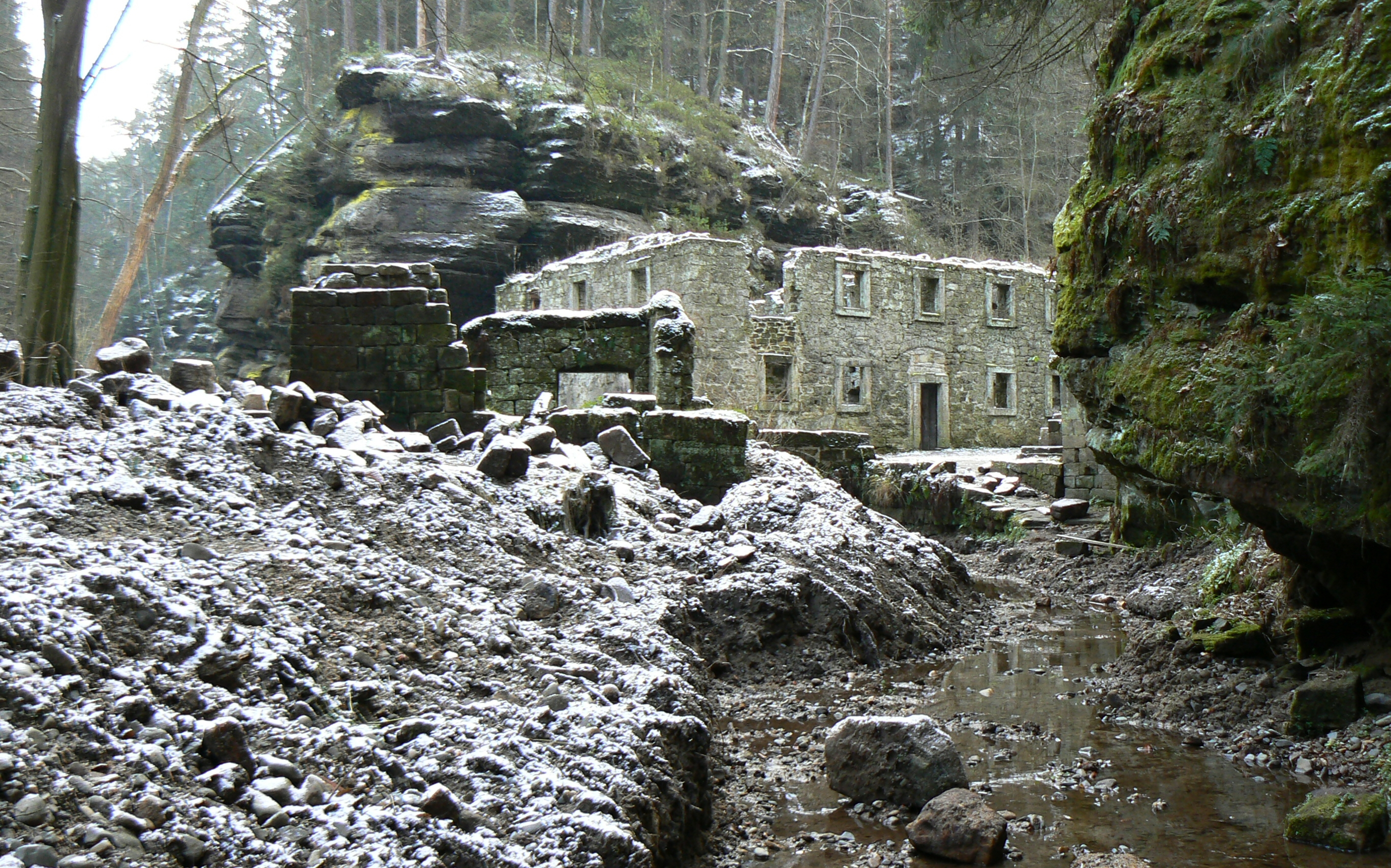 Ruins of the water mill (Dolský mlýn) at Kamenice River; in national park Bohemian Switzerland, Děčín District in Czech Republic